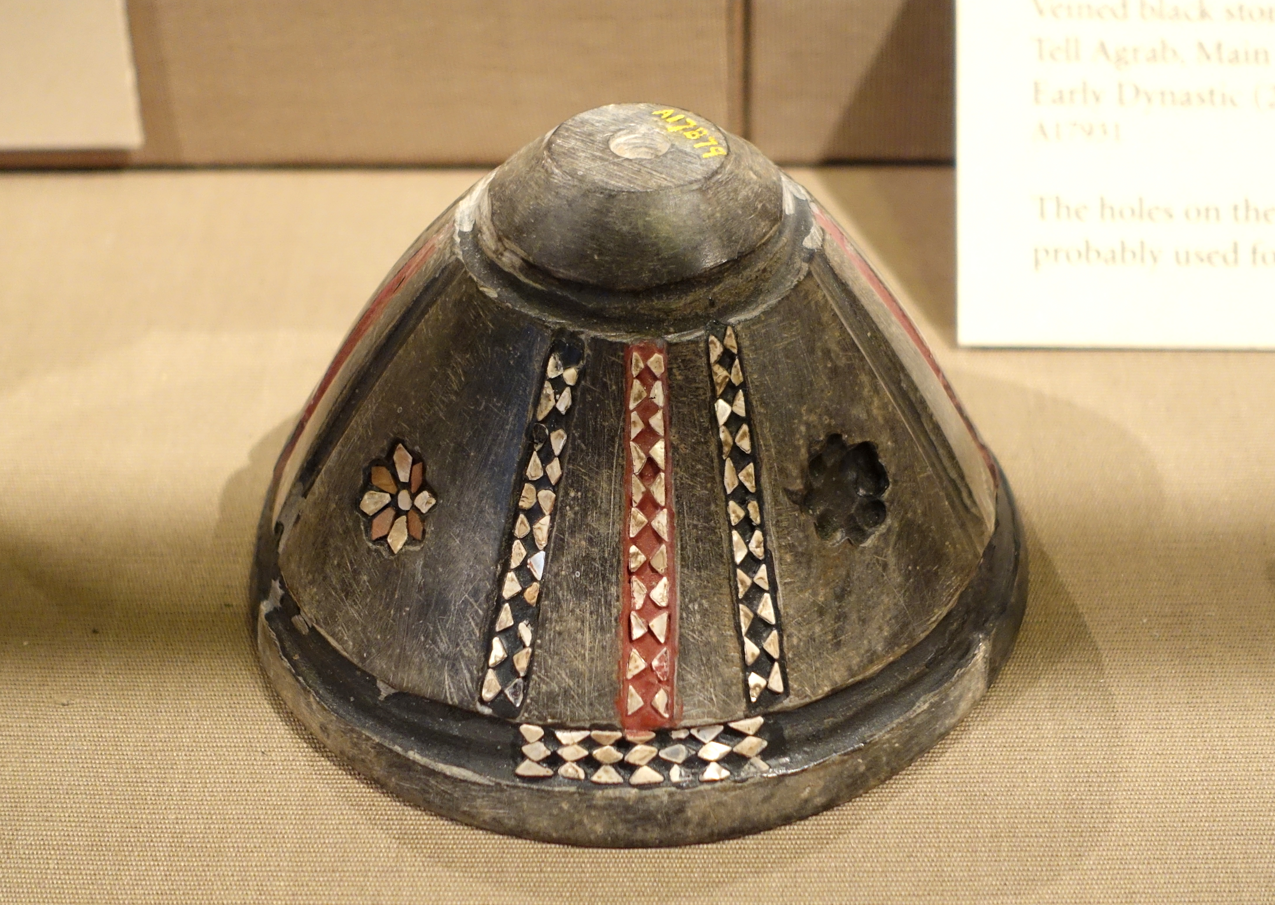 Exhibit in the Oriental Institute Museum, University of Chicago, Chicago, Illinois, USA. This work is old enough so that it is in the public domain.